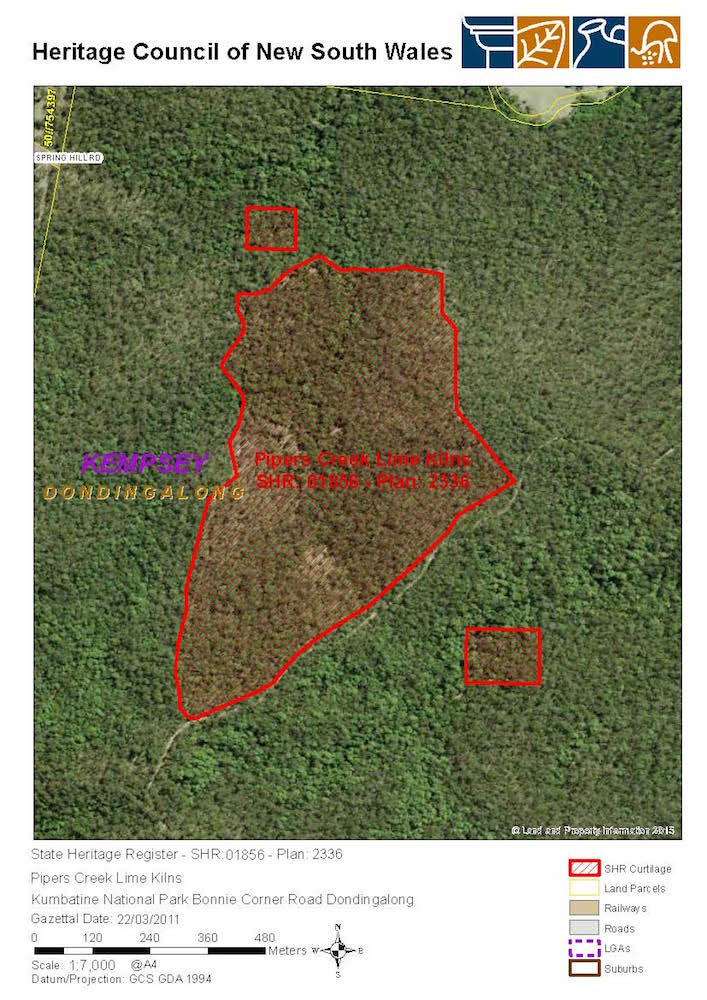 Pipers Creek Lime Kilns: SHR Plan 2336